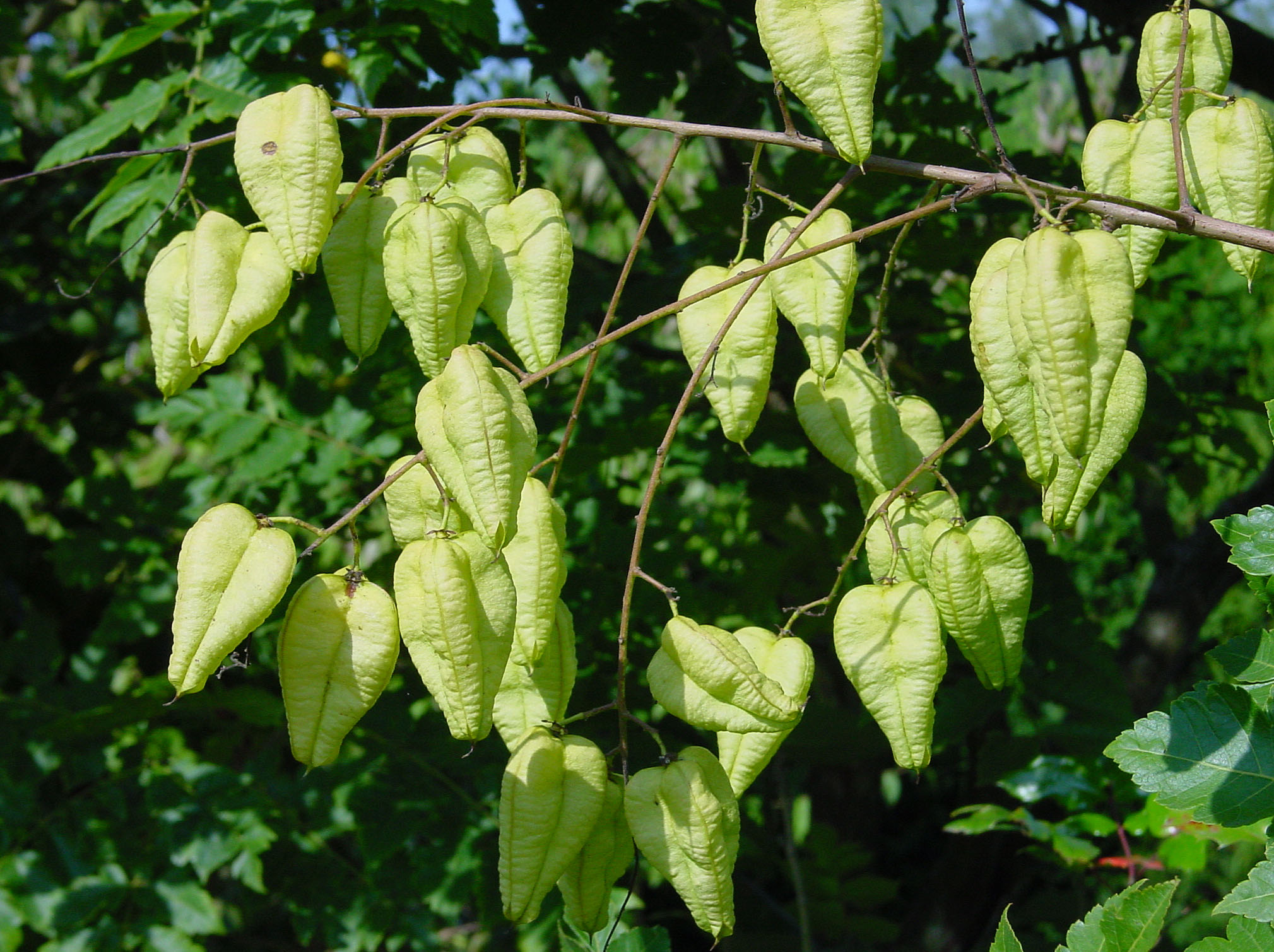 Goldenrain tree, Pride of India, or China tree